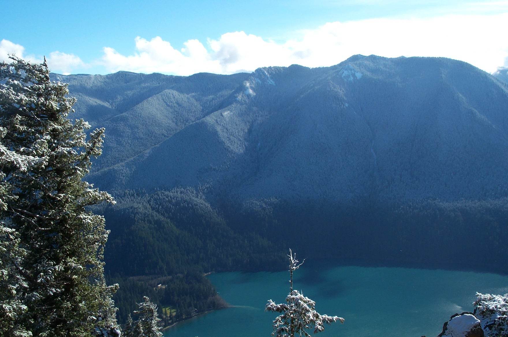 Pyramid Mountain (Clallam County, Washington) - Pyramid Peak view of Lake Crescent